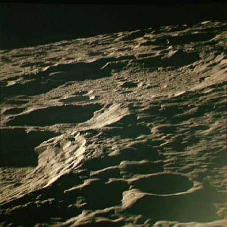 Anderson lunar crater - Apollo-16 image AS16-118-18905